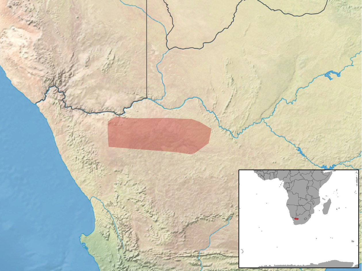 geographic distribution of Thallomys shortridgei